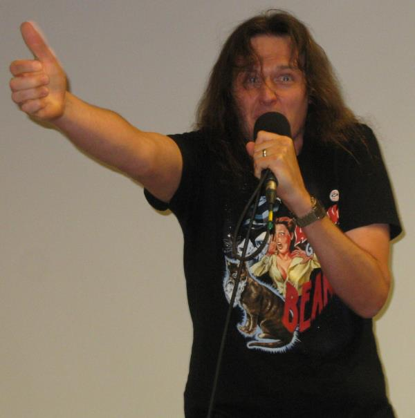 Shoebox (Tim Crist) of Worm Quartet performing at DeepSouthCon 50 in Huntsville, Alabama on June 16, 2012. Photo by Lee K. Seitz and released under a CC BY-SA 3.0 license.